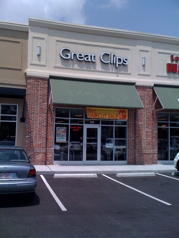 A picture I took of my local Great Clips Salon, feel free to use for anything.